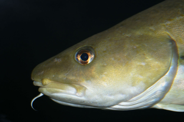 Kabeljauw, Atlantic Cod, Gadus morhua